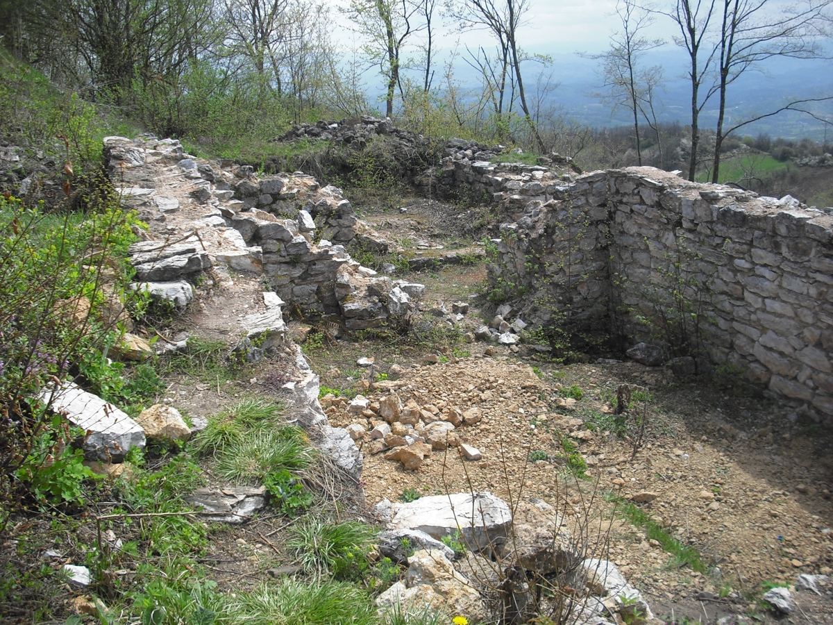 View on Gradina Fortress on Jelica near Čačak, Serbia.